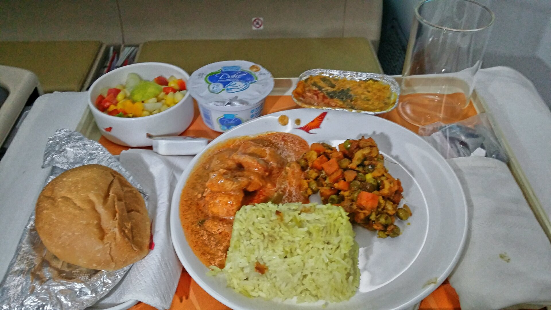 In flight meal served by Air India.